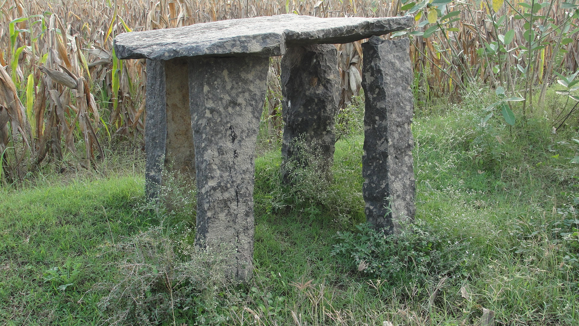 Platform erected on the roadside to rest burdens. Usage: erect a this Sumai Thangi often times in memory of a woman who has died in pregnancy, the belief being that by such erection she will be relieved of her burden in the womb Location: Esanthai Panchayat, Chinna Salem block, Villupuram district, Tamil Nadu, India.